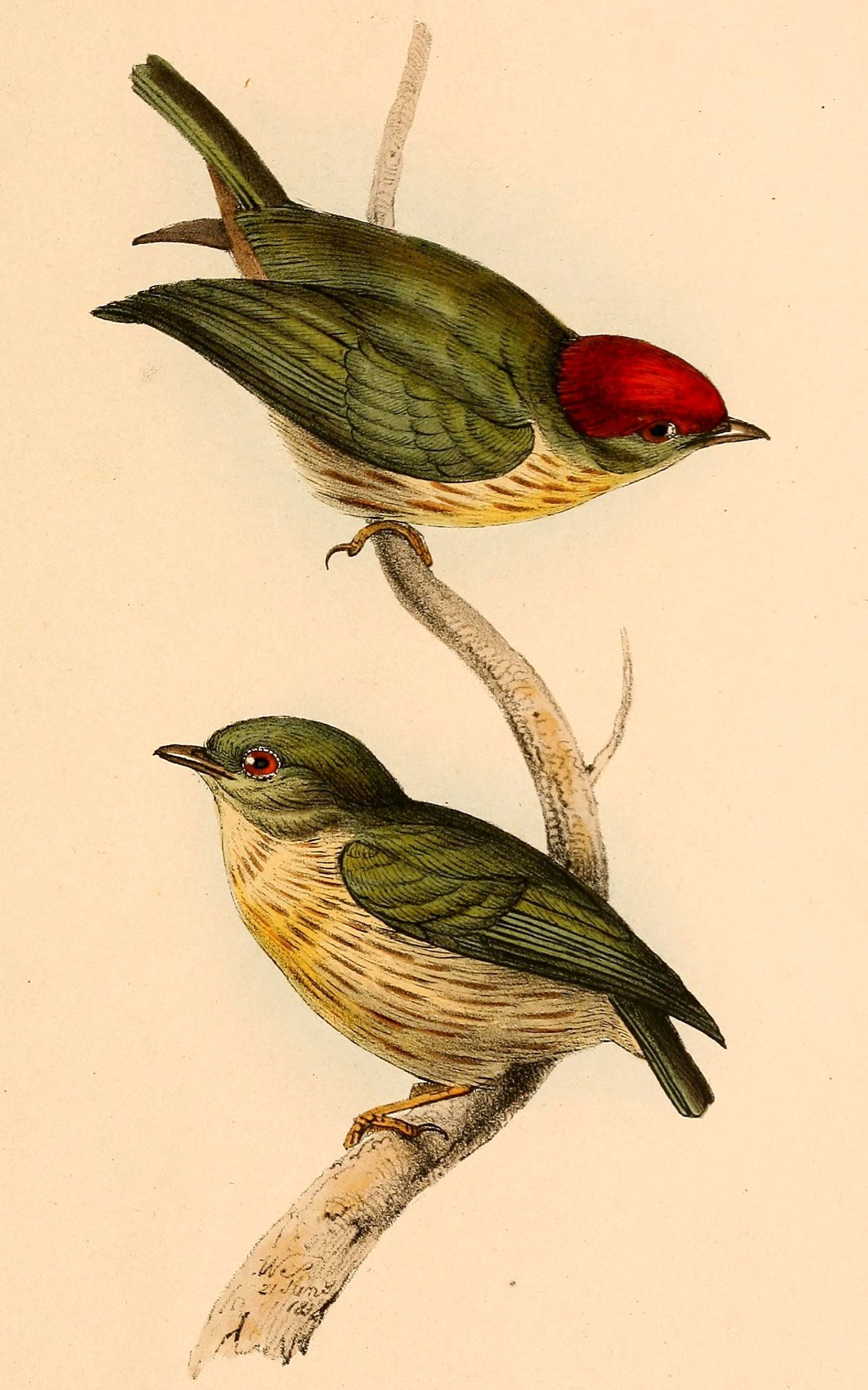 Pipra strigilata = Machaeropterus regulus (Striped Manakin)